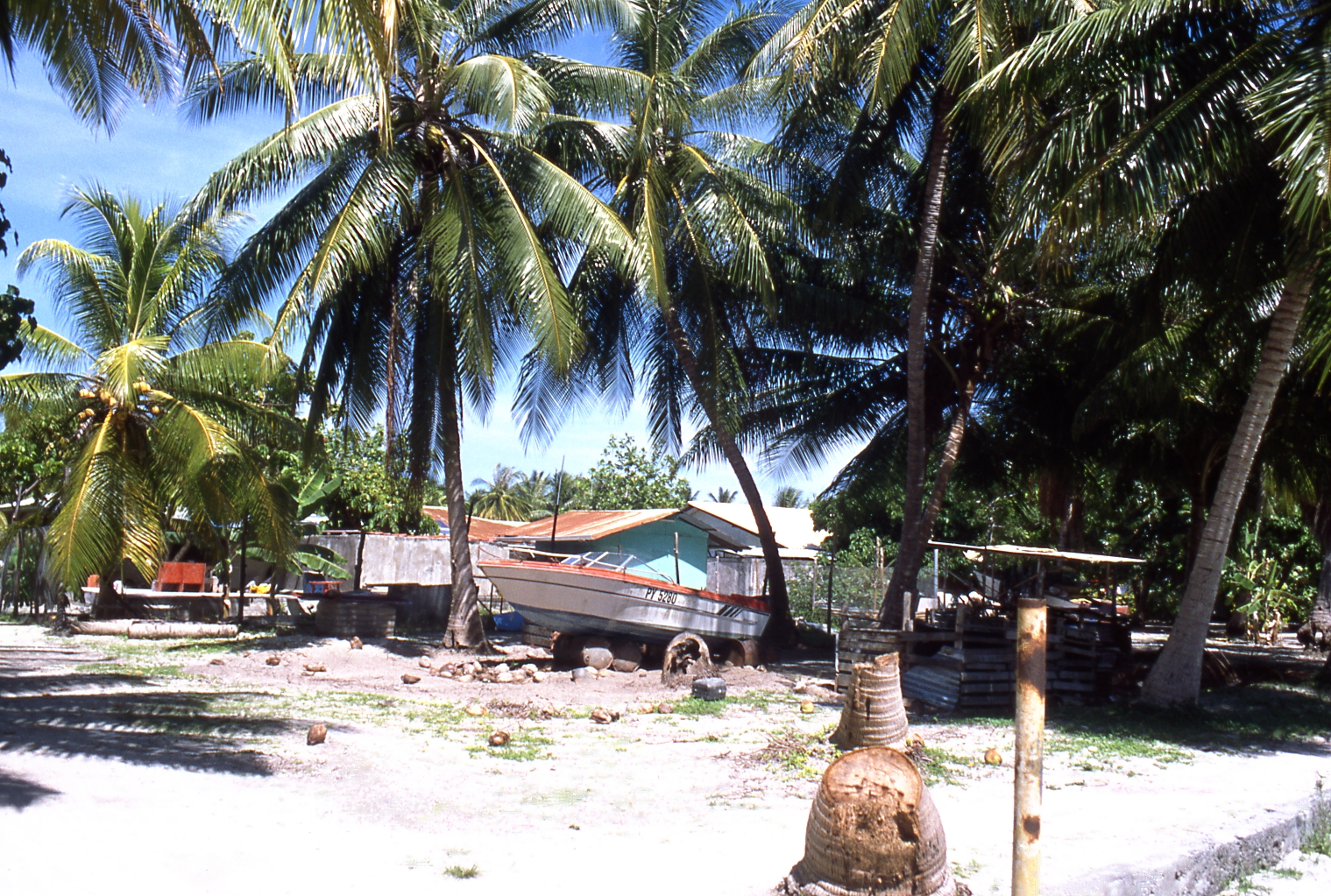 Ahe atoll, Tuamotu Archipelago, French Polynesia